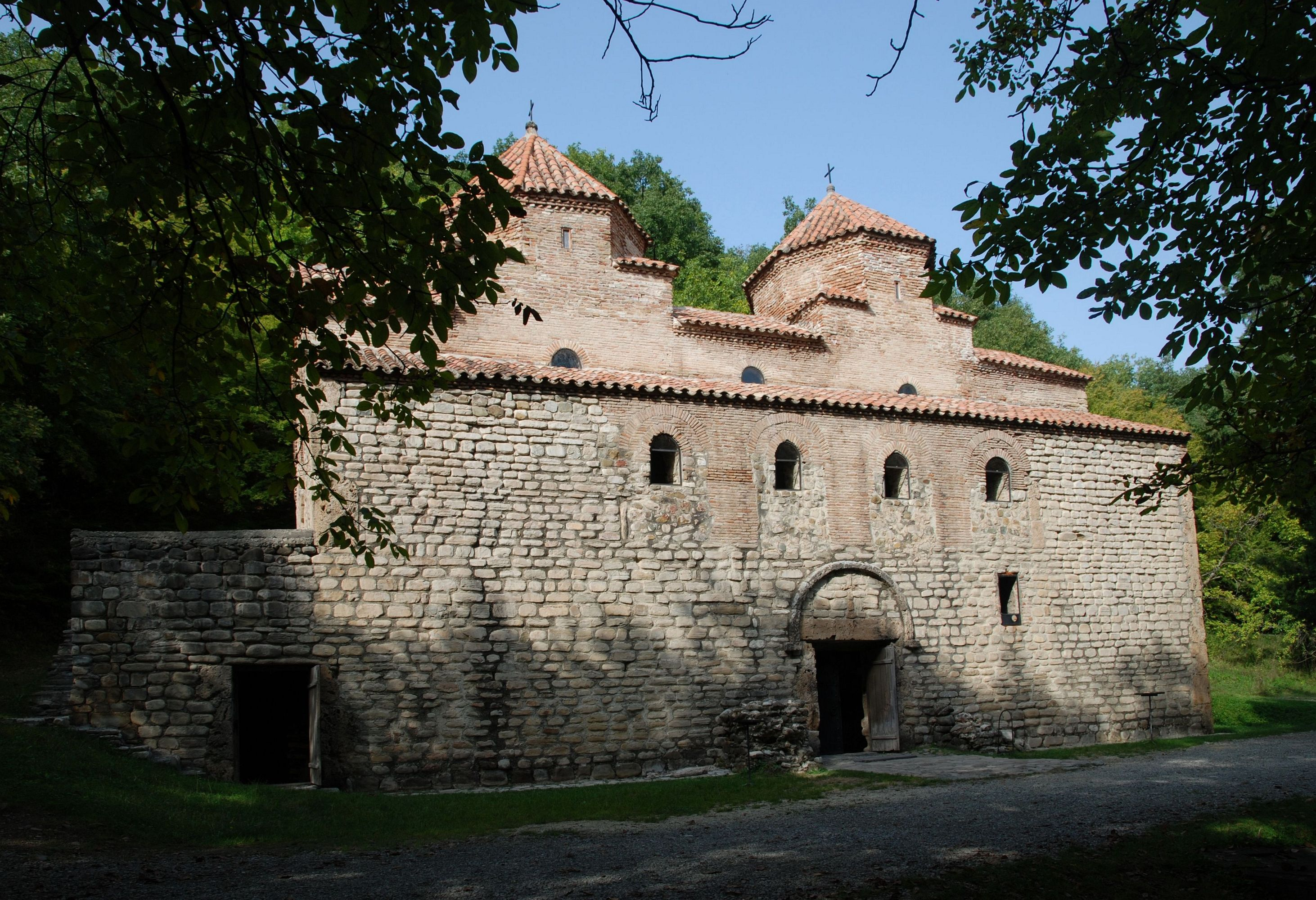 Gurjaani Kvelatsminda, south